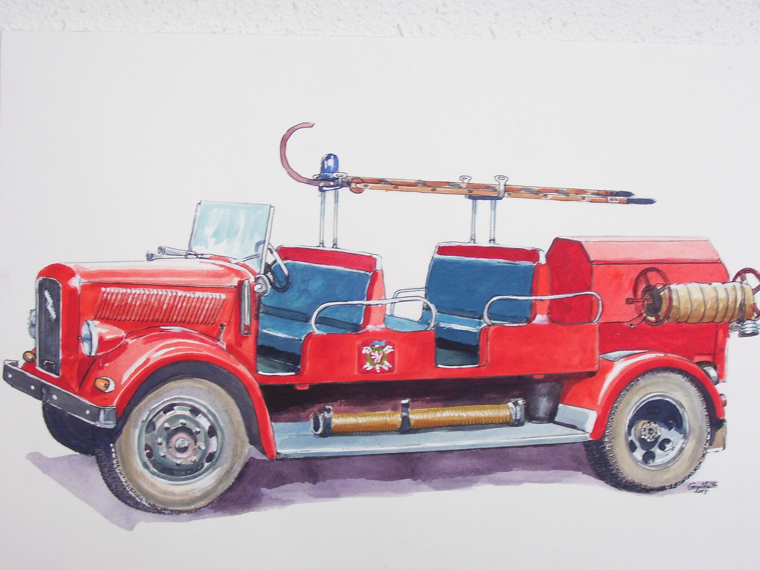 first car of free fire brigade Dolni Libina, build 1939, rebuild 1949, mark Opel Blitz